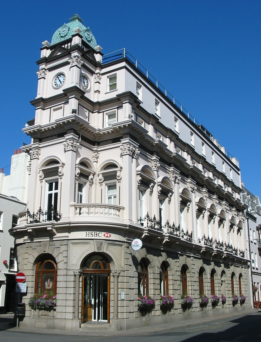 Jersey